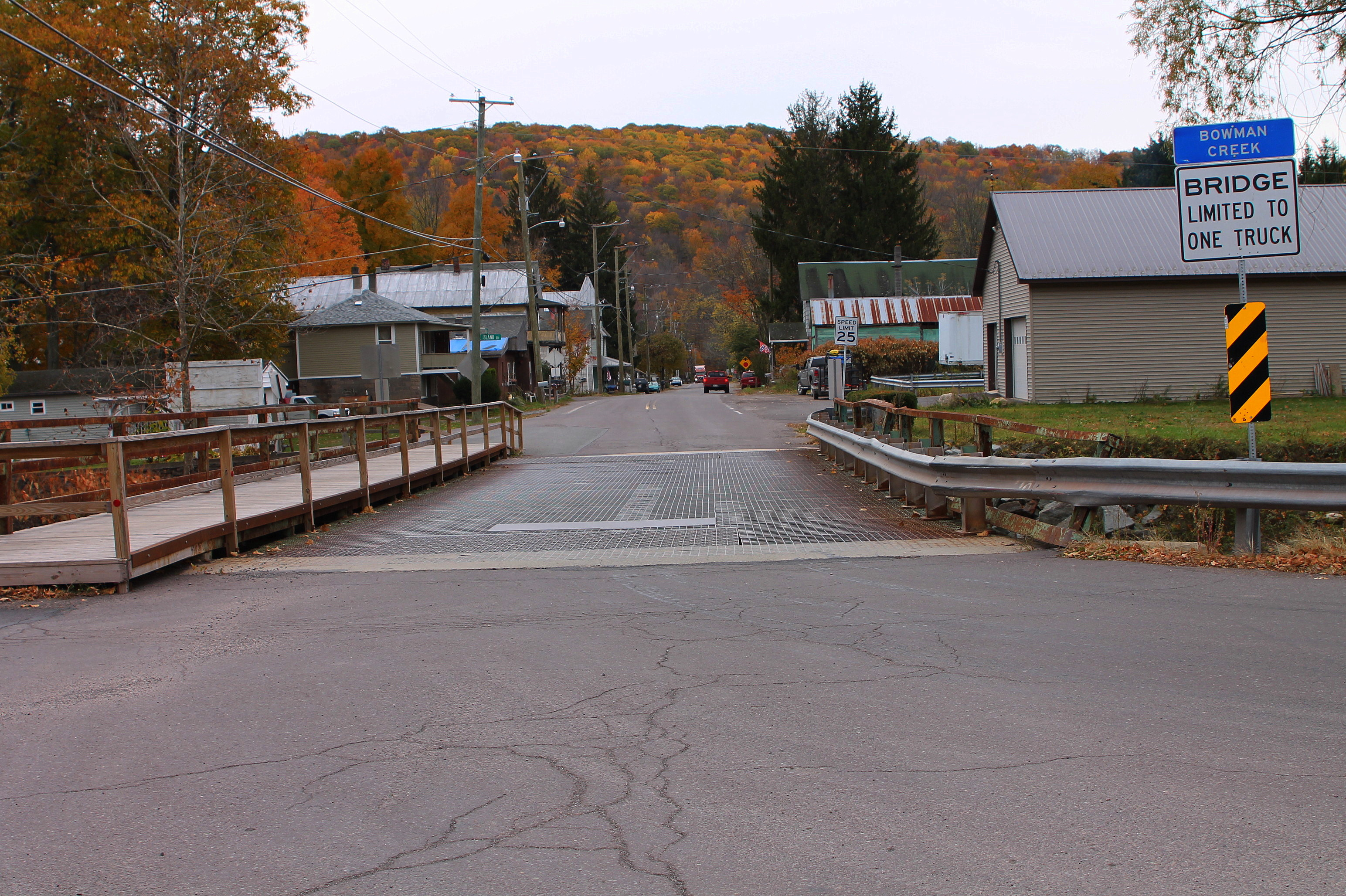 Street in Noxen, Pennsylvania (possibly Main Street?) with a bridge over Bowman Creek